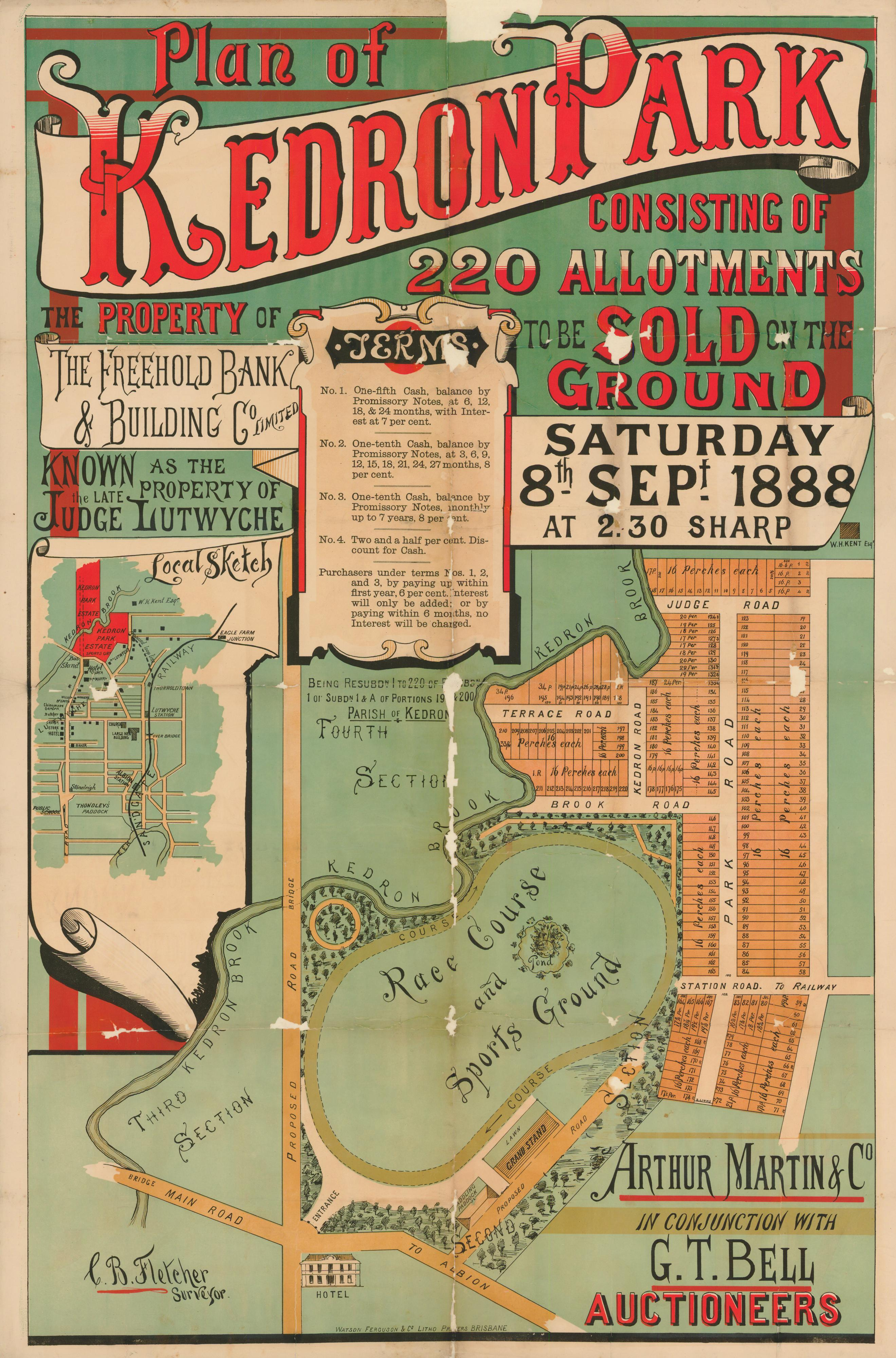 Creator: Arthur Martin & Co. in conjunction with G. T. Bell, auctioneers. Location: Kedron Park, Brisbane, Queensland. Description: "The property of the Freehold Bank & Building Co. Limited. Known as the property of the late Judge Lutwyche." Arthur Martin & Co. in conjunction with G. T. Bell, auctioneers. Land for sale is Parish of Kedron. Published by Watson Ferguson & Co. lithographer (Brisbane). 98 x 64 cm. Map includes conditions of purchase. Digitised as part of the 'Henzell and Cameron Estate Maps Project' 2005. Read more about SLQ's map collections: View this image at the State Library of Queensland: Information about State Library of Queensland’s collection: You are free to use this image without permission. Please attribute State Library of Queensland.